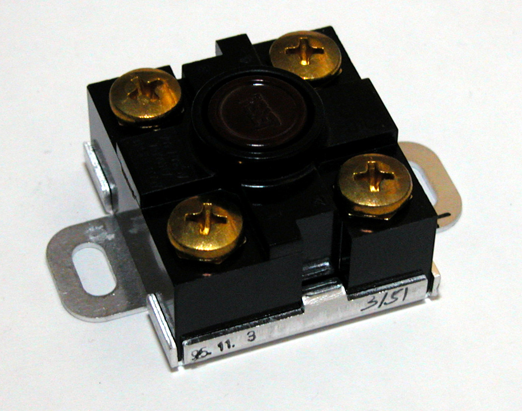 Bimetallic thermostat with manual reset. Current rating: 50 amps